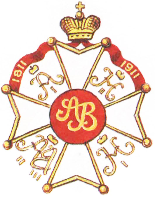 Badge of Hersonsky 130-th Regiment